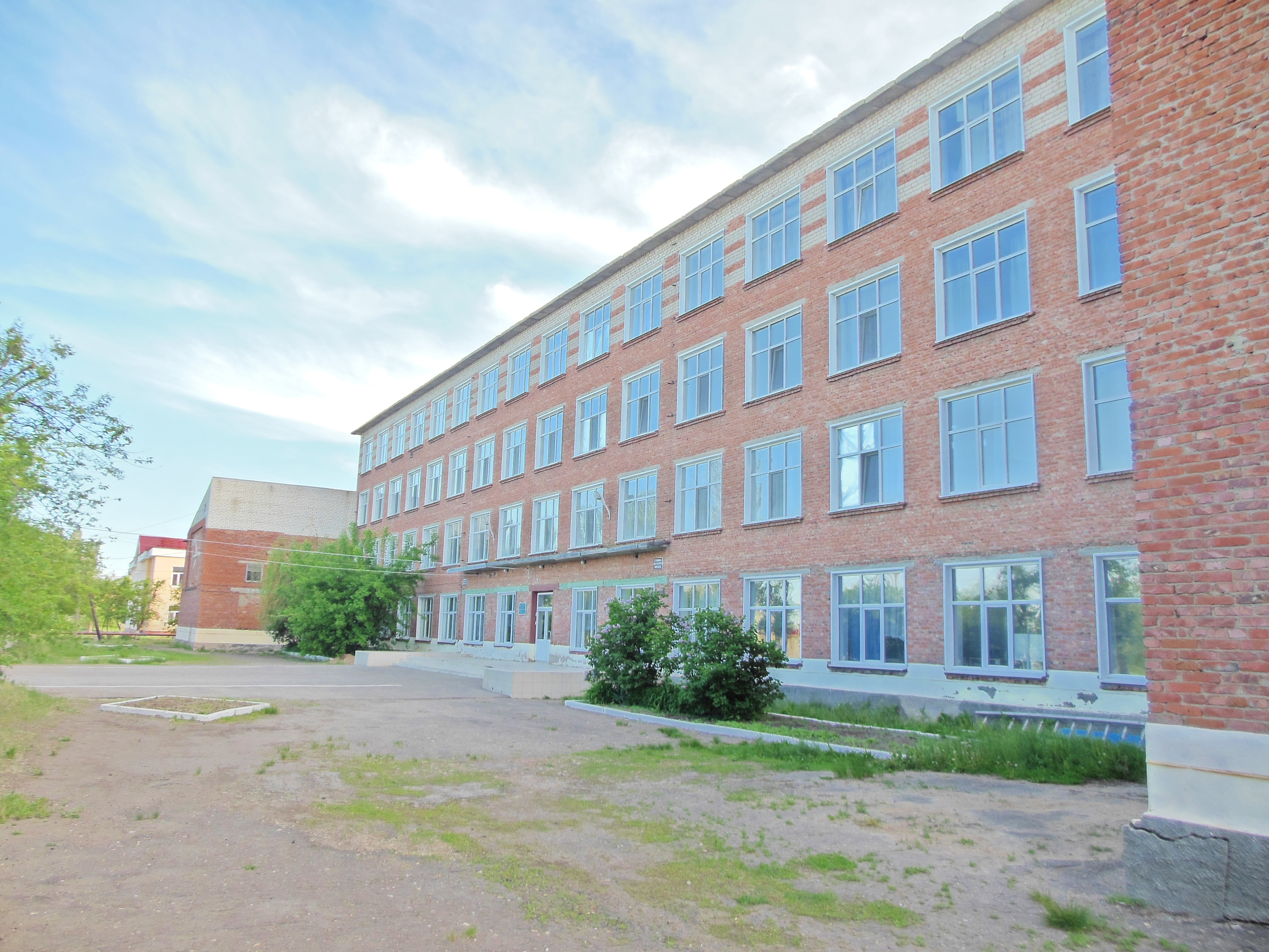 learning centre